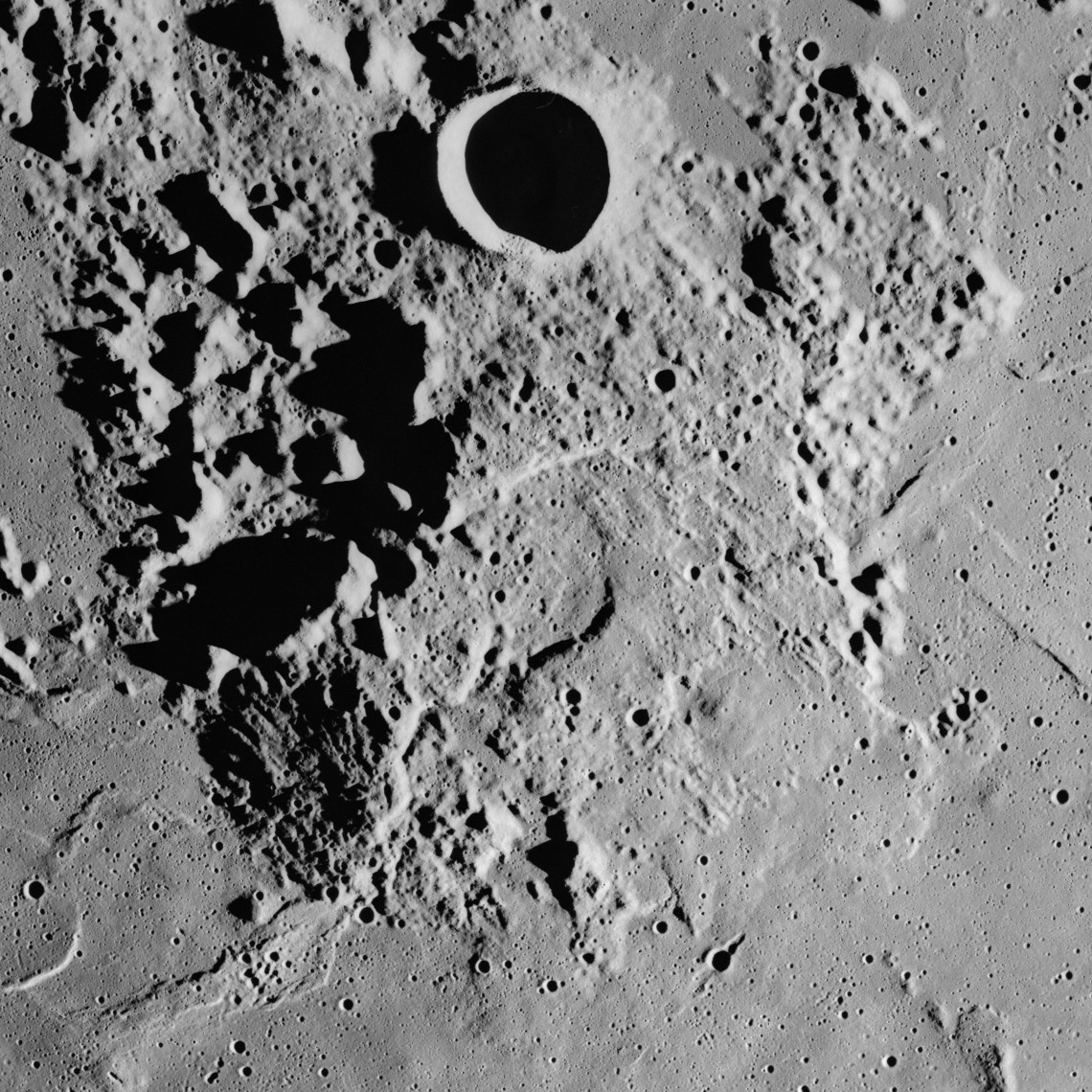 Possible lunar volcanic structure informally known as the Gardner Megadome. Gardner crater is at top center. Sun elevation is approximately 3 degrees (from right).